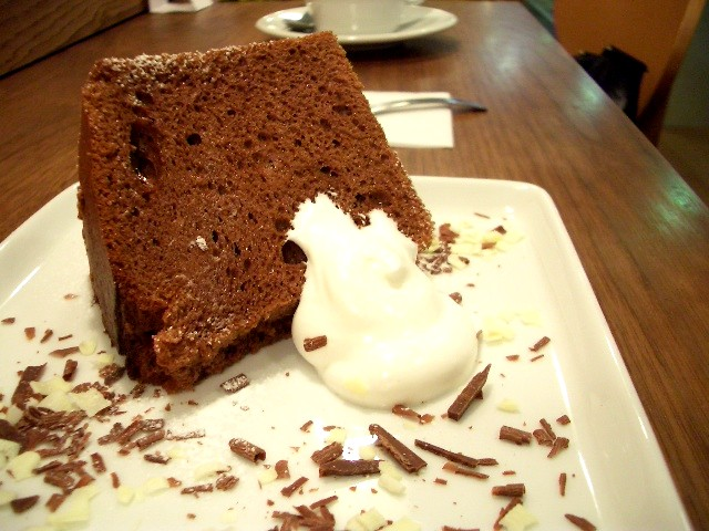 Chiffon cake kanko